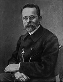 Nikolai Morozov in 1910.